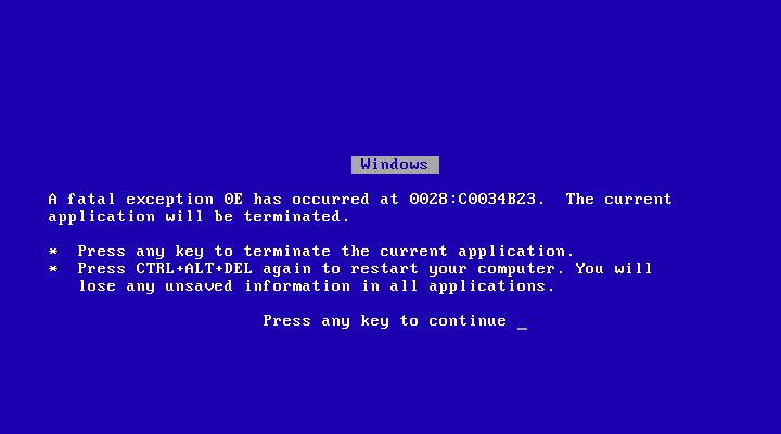 A Blue Screen of Death caused by typing "C:\con\con" into the Run dialog in Windows 95.